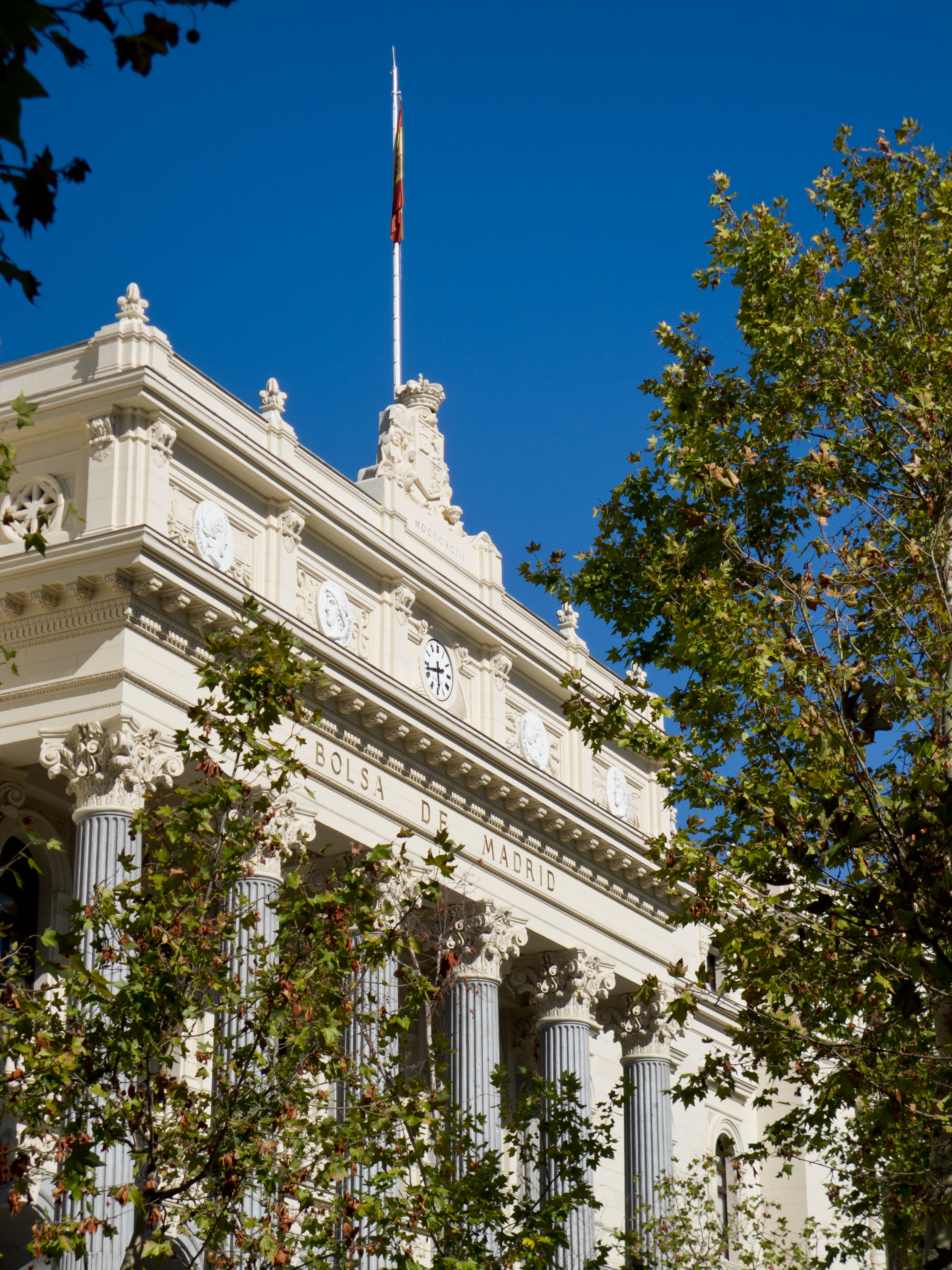 Palace of la Bolsa de Madrid, Spain.